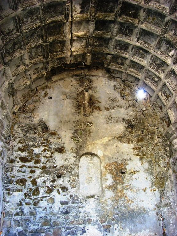 Ruins of the Hall of Korlai fort, Maharashtra, India